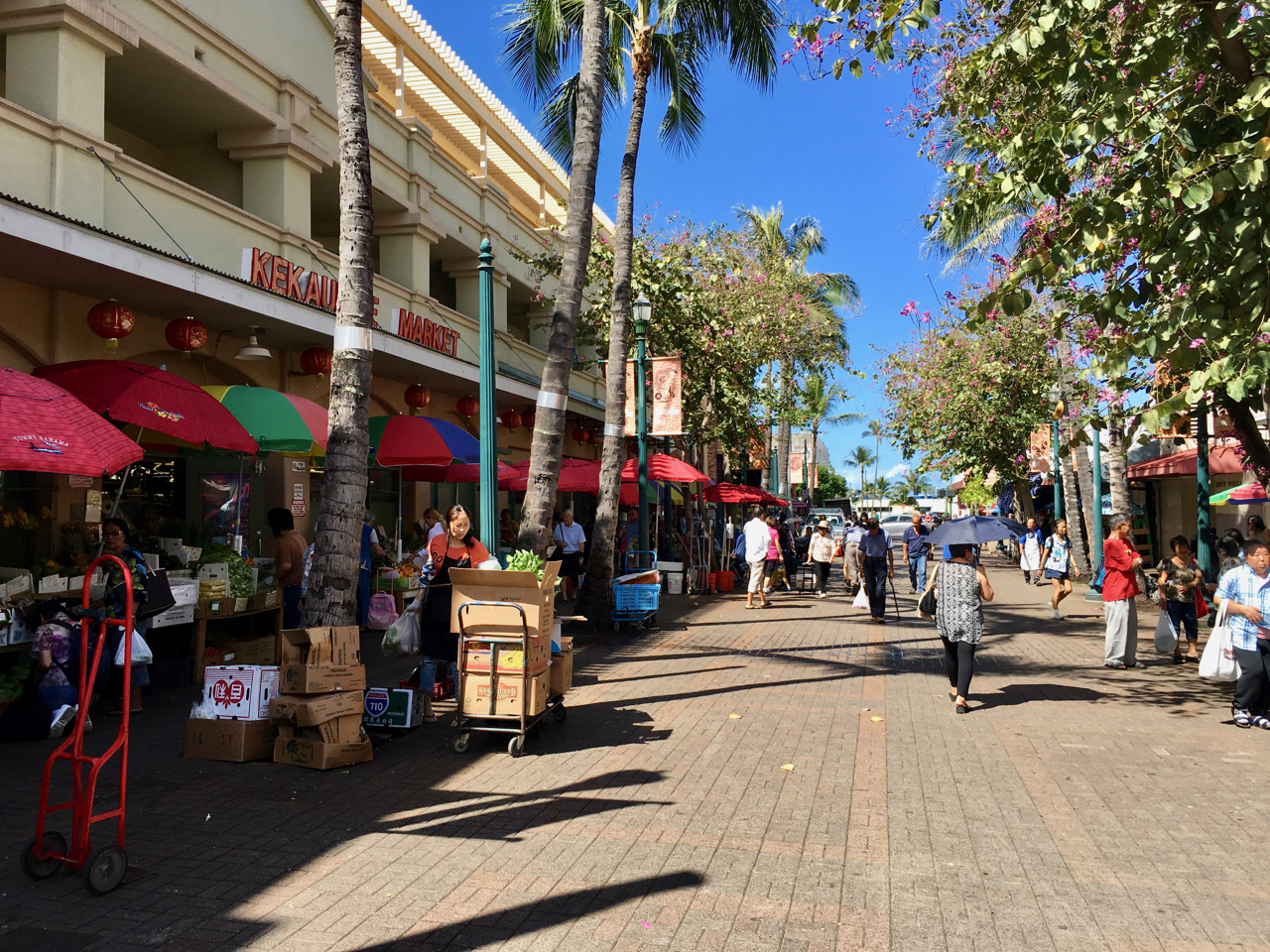 The Keaulike Market, located in Honolulu Chinatown.